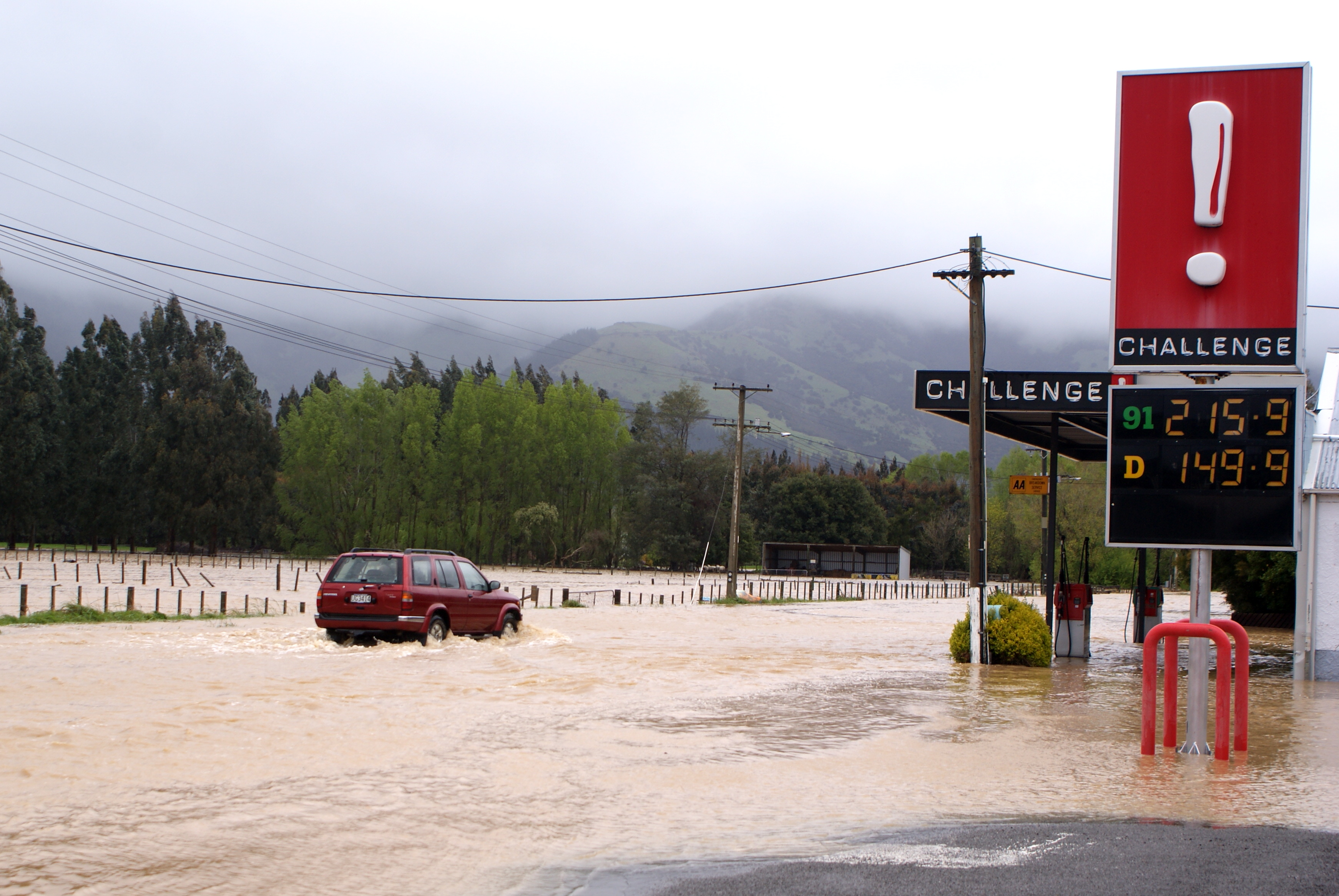 The Okana River in flood on 19 October 2011. The petrol station is in Little River on SH75.